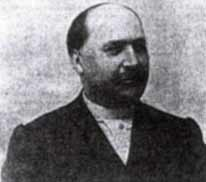 Isaak Ivanovich Fomiliant, the first principal of the Tsarskoe Selo non-classical secondary school